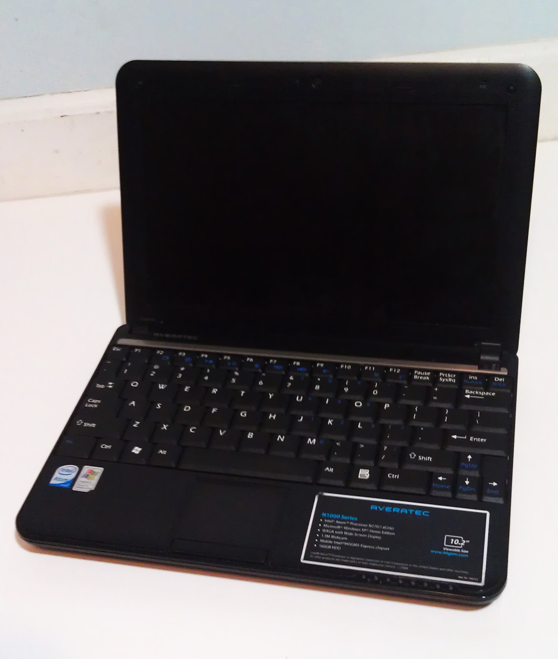 Photograph of an Averatec N1000 Series netbook.